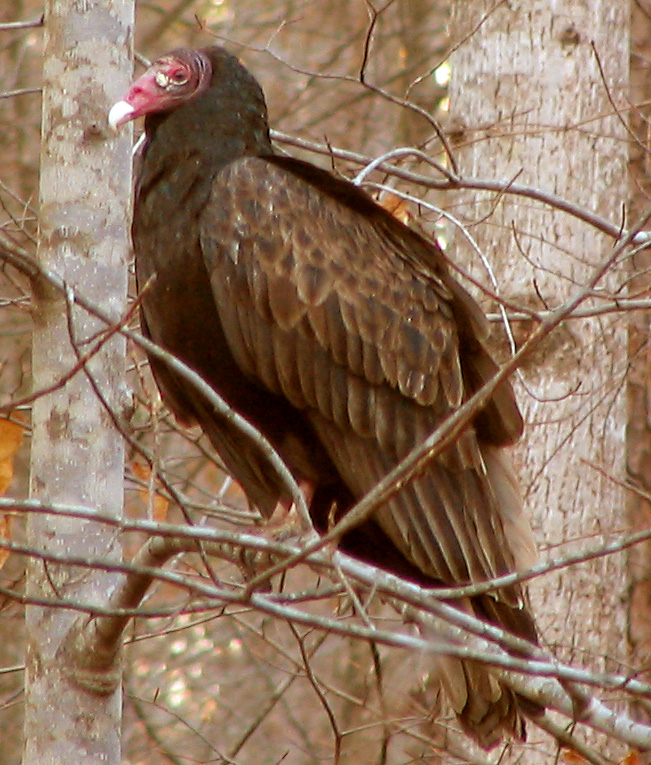 A Turkey vulture in profile.